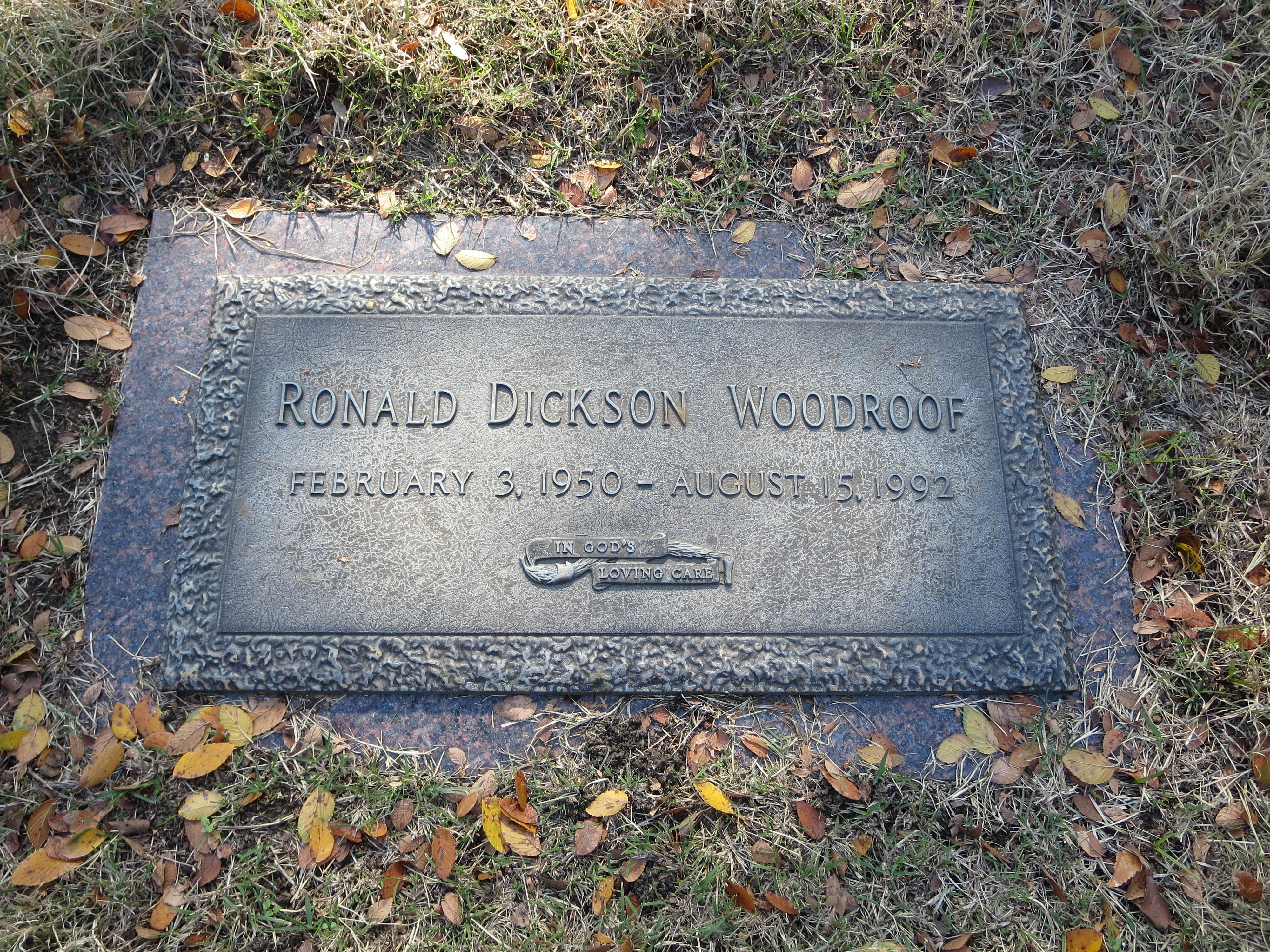 Ron Woodroof's Tombstone